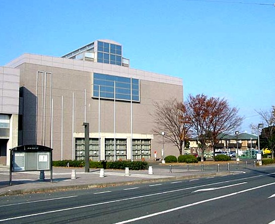 Hamamatsu Arena sports complex, Hamamatsu, Shizuoka, Japan